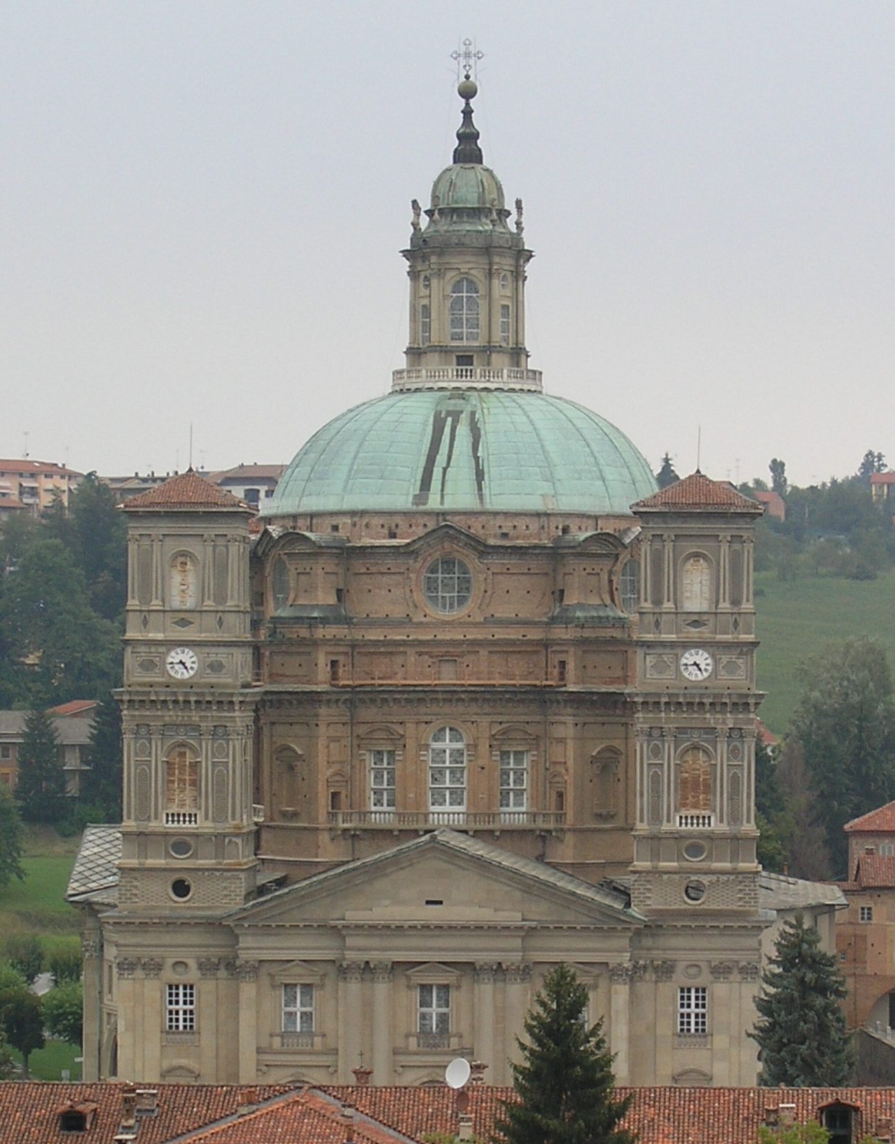 The Sanctuary of Vicoforte, Vicoforte (Italy)